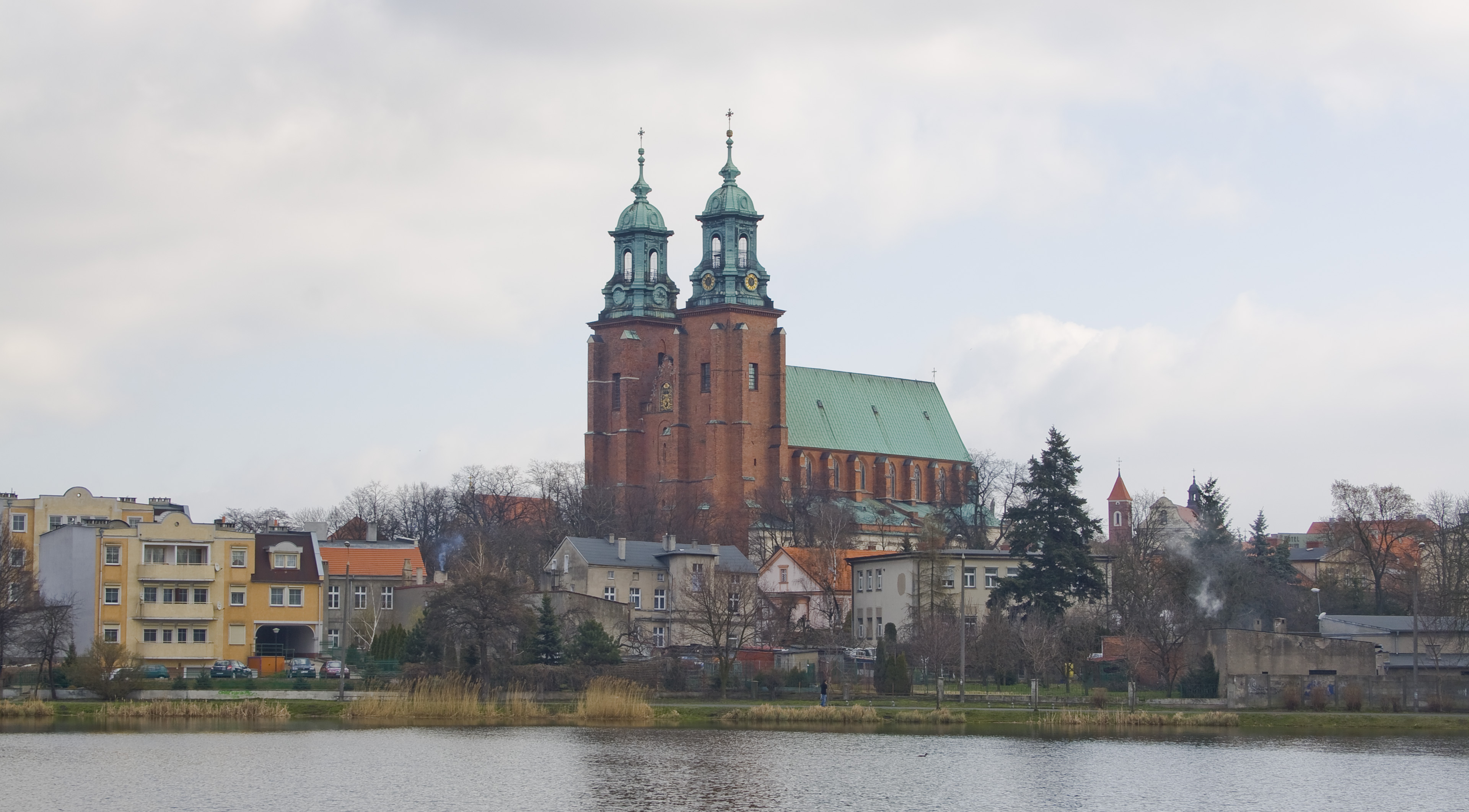 Gniezno Cathedral, Gniezno, Poland